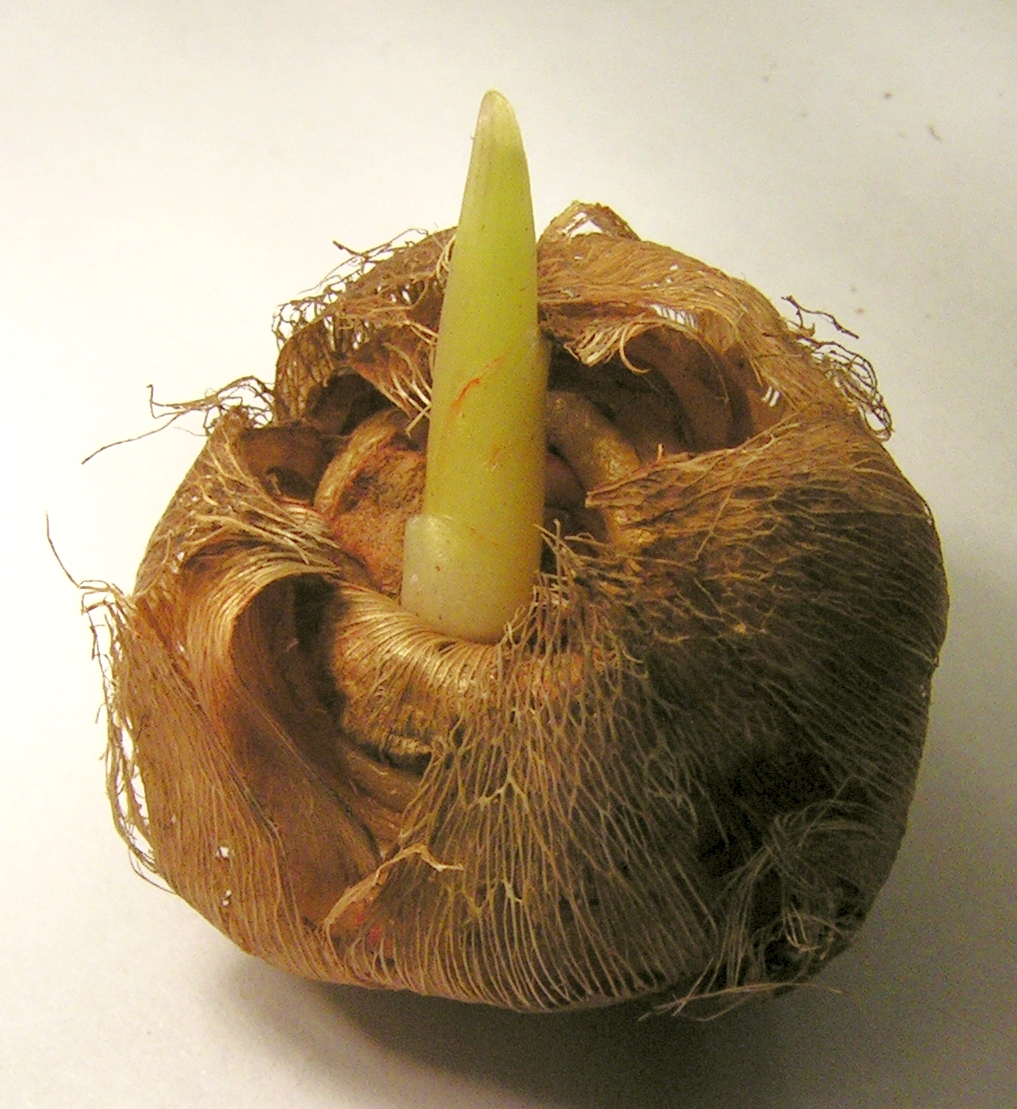 The сorm of Ixia sp. (diameter of the сorm is appr. 2 cm).